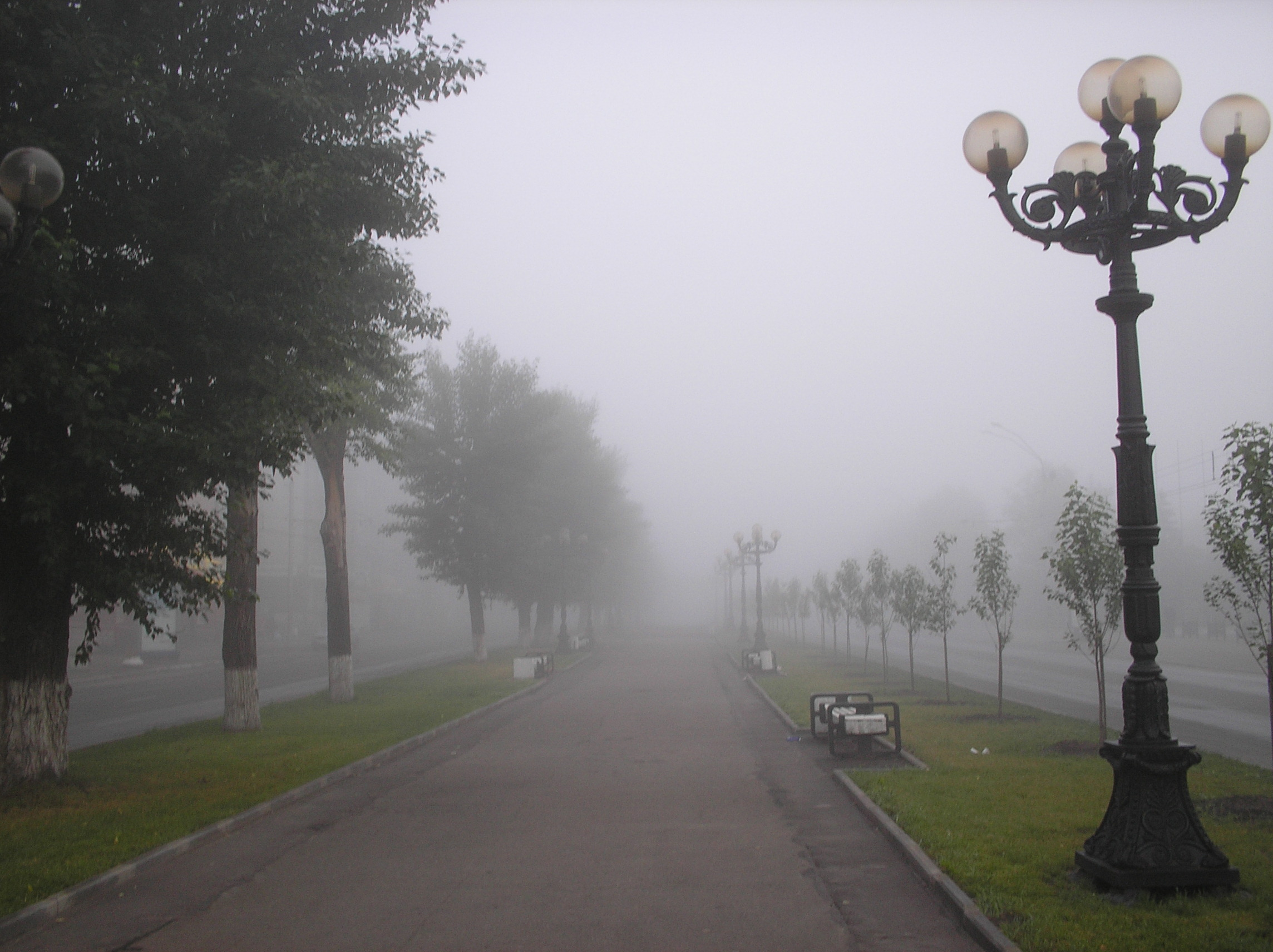 Boulevard on Lenina Avenue in Barnaul